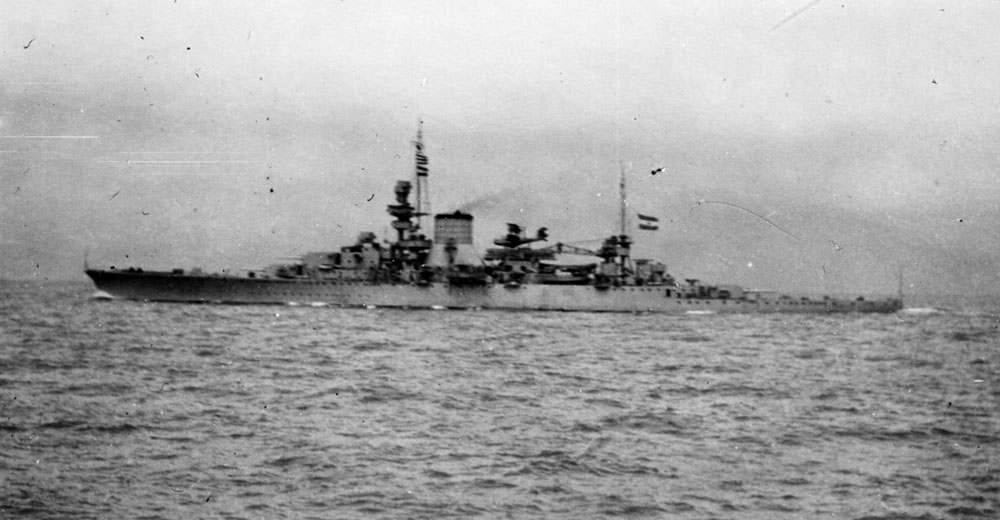 First argentine heavy cruiser ARA Almirante Brown (C-1)